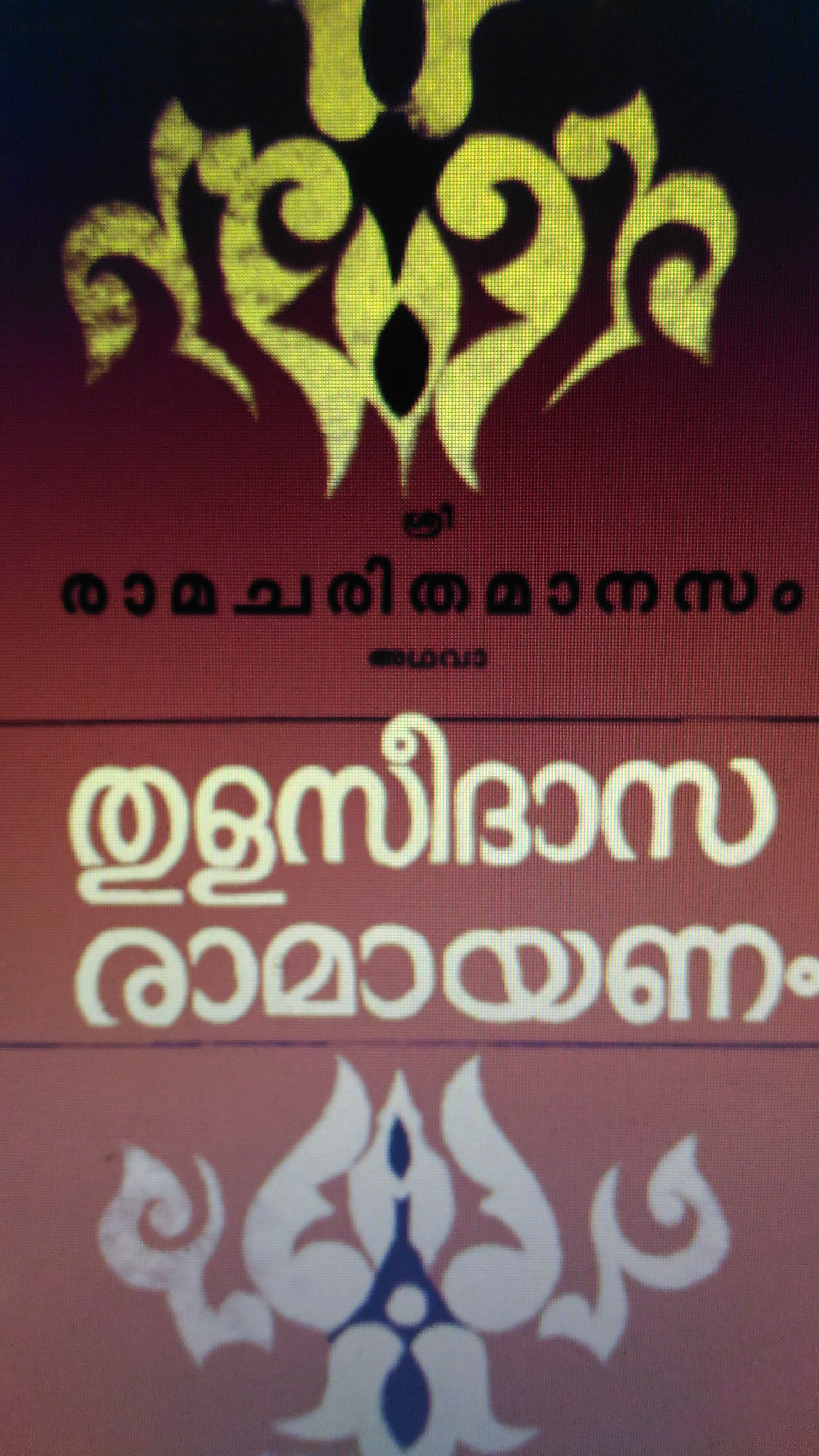 തുളസീദാസരാമായണം-കവര്‍പേജ്